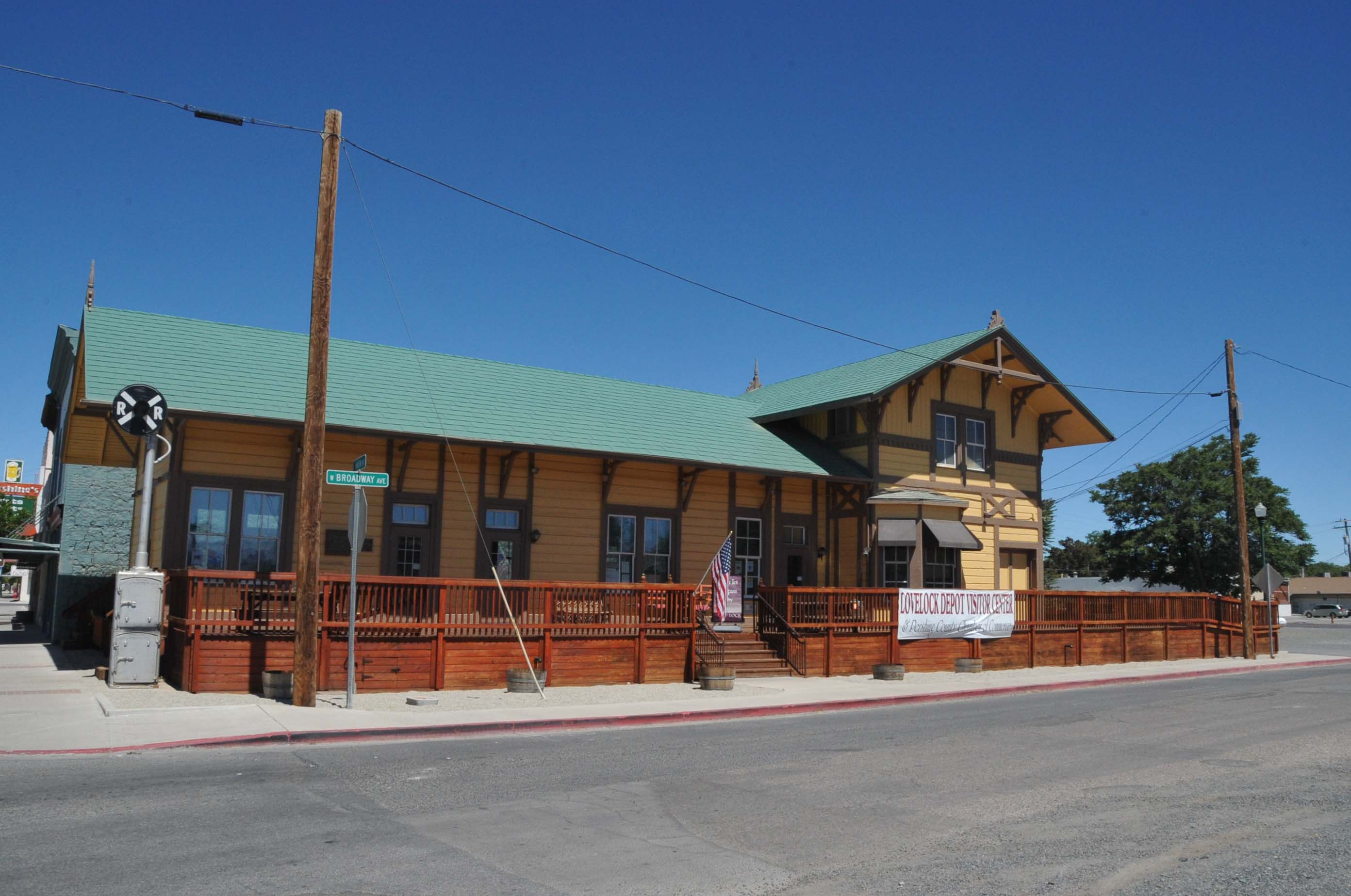 1880 STICK STYLE; IT WAS A UNIQUE STYLE FOR THE CENTRAL PACIFIC OF WHICH 6 WERE BUILT AND ONE SURVIVES. THE STATION CLOSED IN THE EARLY 90’S AND THE STATION WAS DONATED TO THE CITY OF LOVELOCK. IT NOW HOUSES A VISITOR CENTERAND RETAIL BUSINESSES